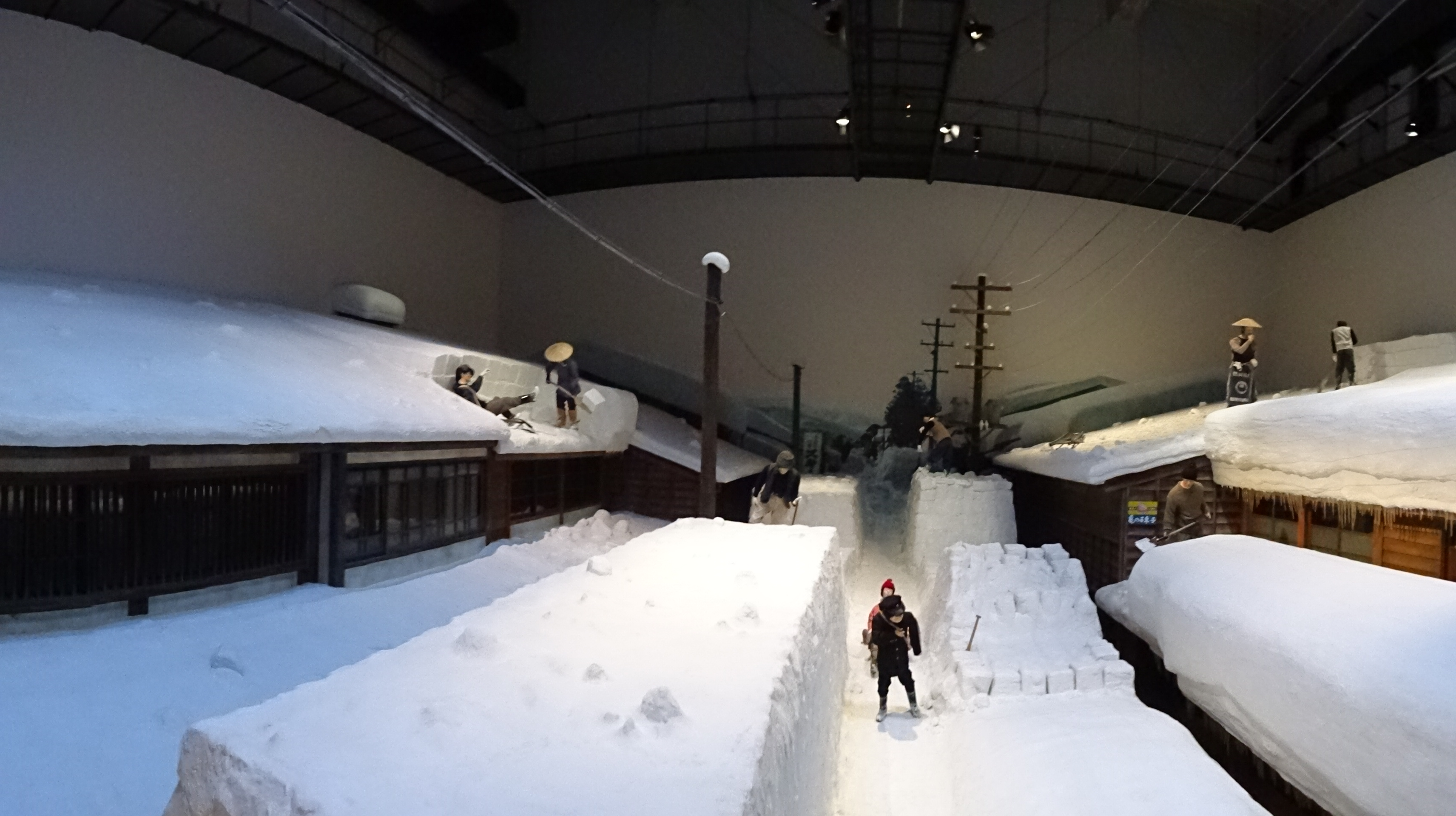 Life in snow country, Niigata Prefectural Museum of History